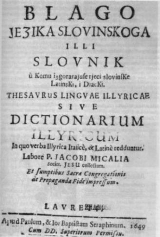 Blago jezika slovinskoga by Jakov Mikalja (1651)